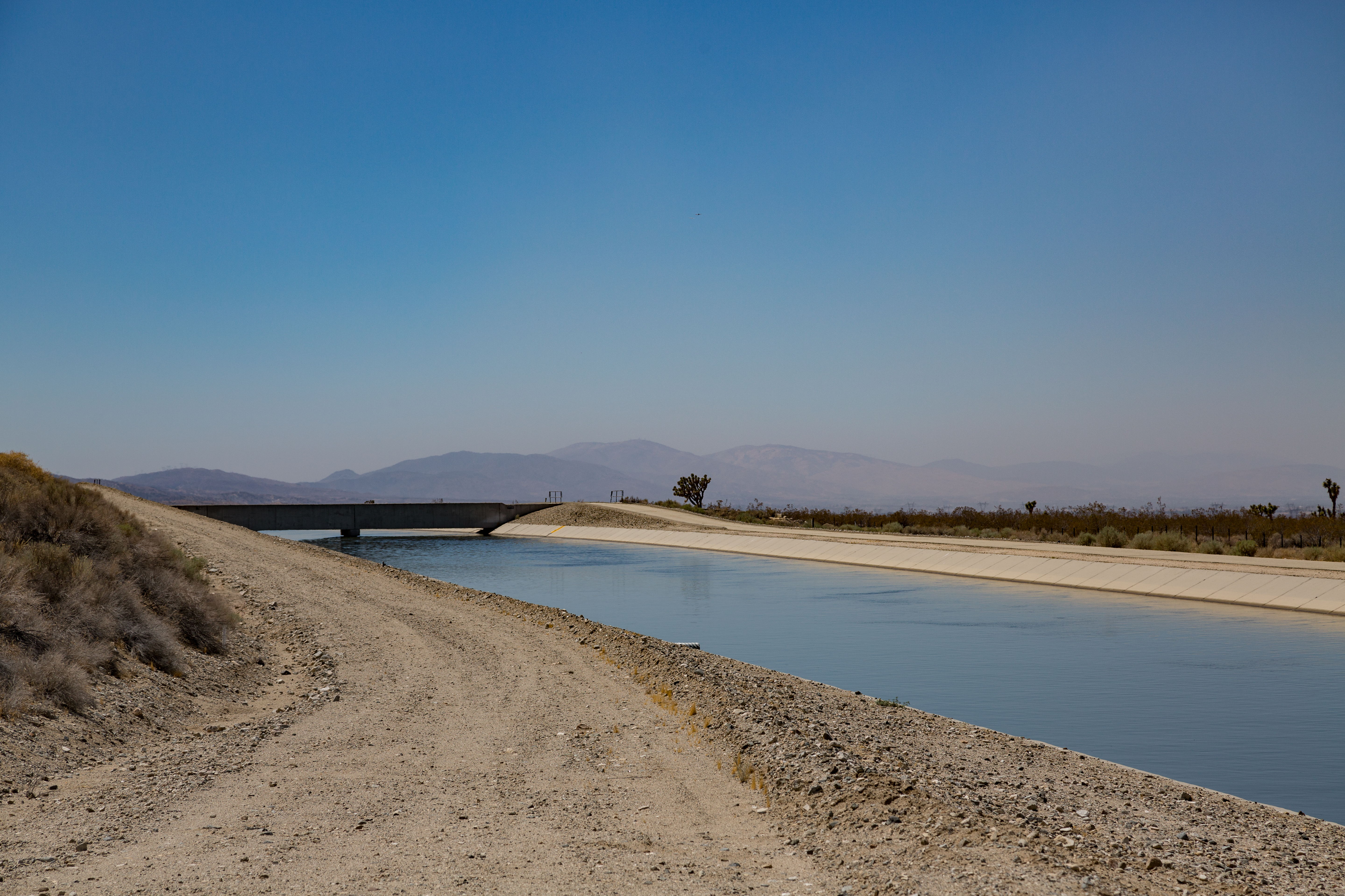 An aqueduct as seen from Largo Vista Road, near Llano, California - near Los Angeles.